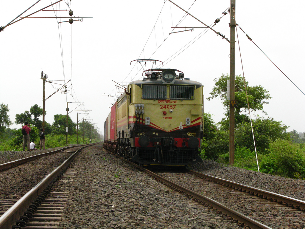 JHS WAG5HB #24057 with a CONRAJ